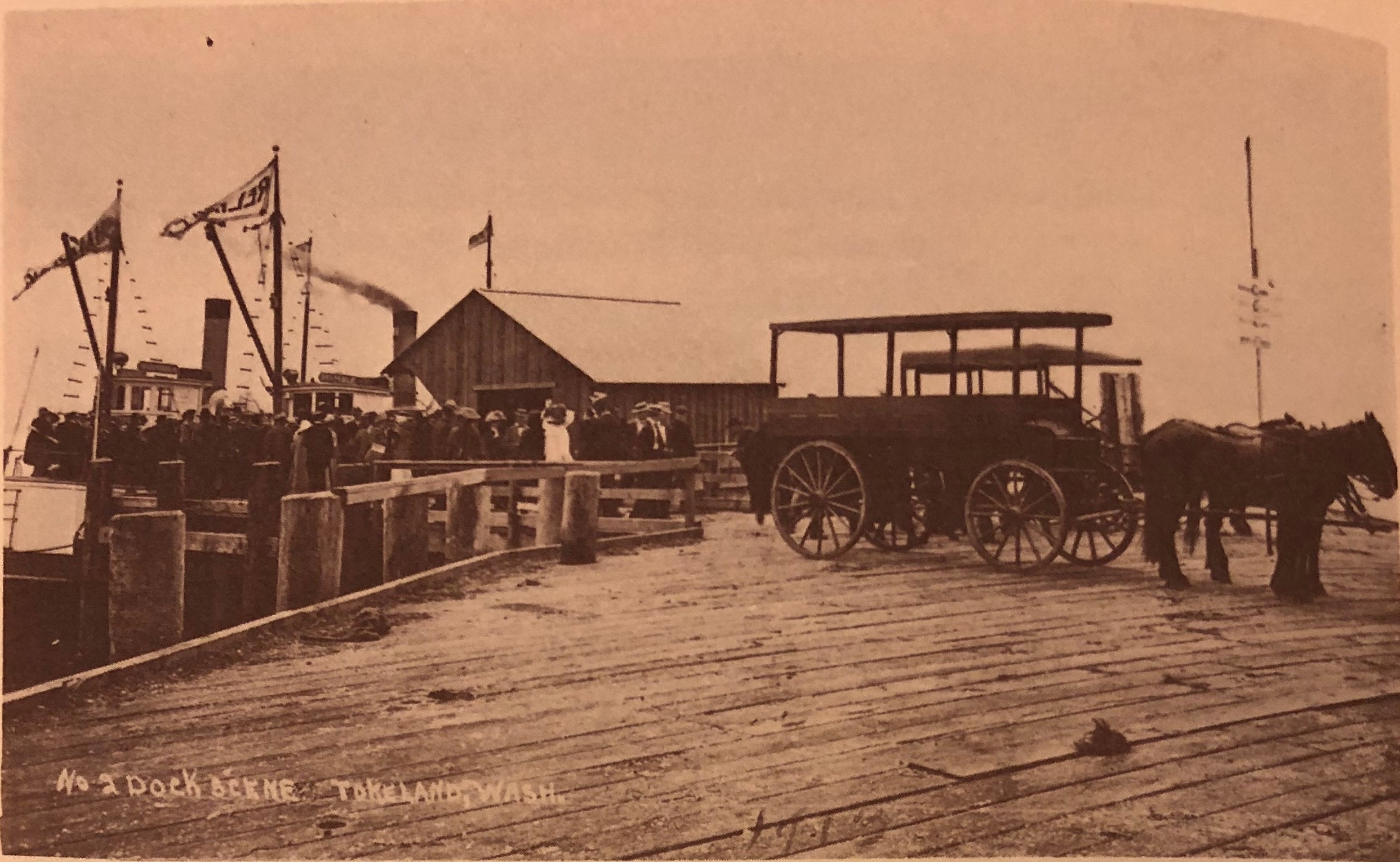 Meeting the steamer Tokeland 1912 Albert Thompson Collection pg 78 - 2.jpg